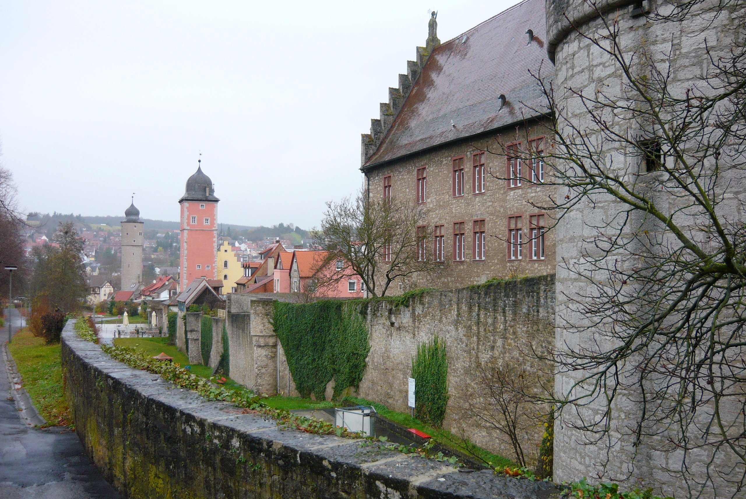 Town wall in Ochsenfurt/Germany